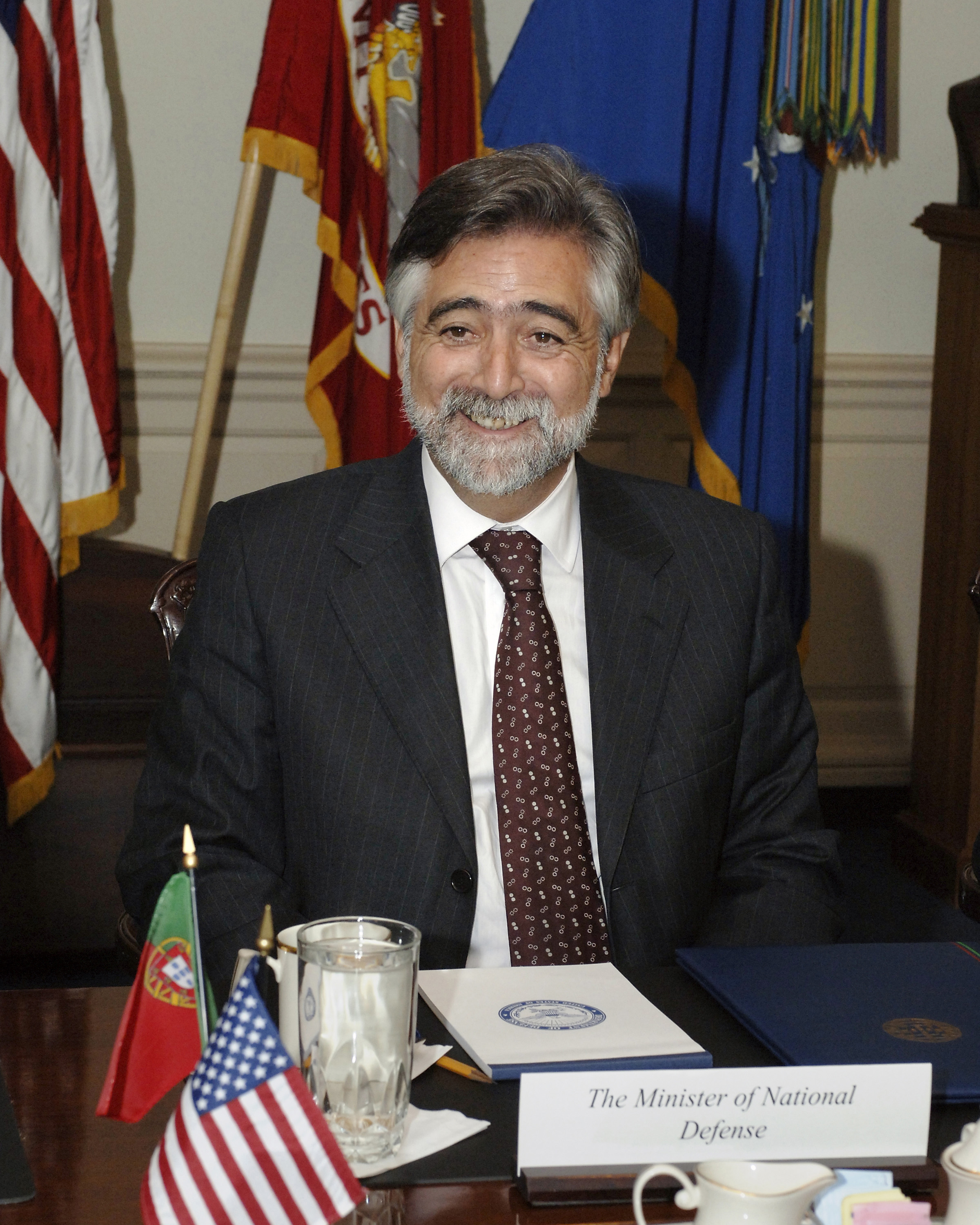 Luis Amado, Portugal Minister of Defense, at a lunch meeting with the U.S. Secretary of Defense at the Pentagon, Washington, D.C., Nov. 9, 2005. (DoD photo by Helene C. Stikkel) (Released)